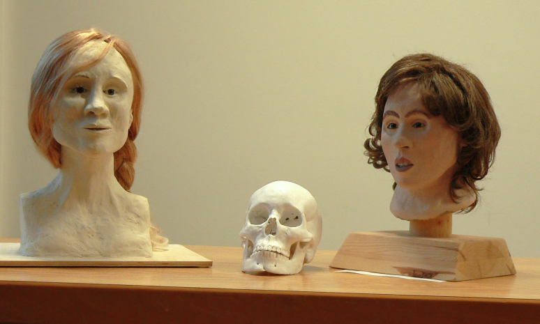 Two 3D face reconstructions of the (Girl of the Uchter Moor): left by Kerstin Kreutz; right by Sabine Ohlrogge, based on the reconstructed scull presented at a press conference in January 2011 at Niedersächsisches Landesamt für Denkmalpflege